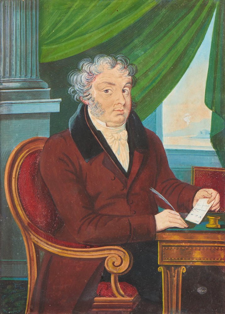 Portrait of Pina Manique (1733-1805)